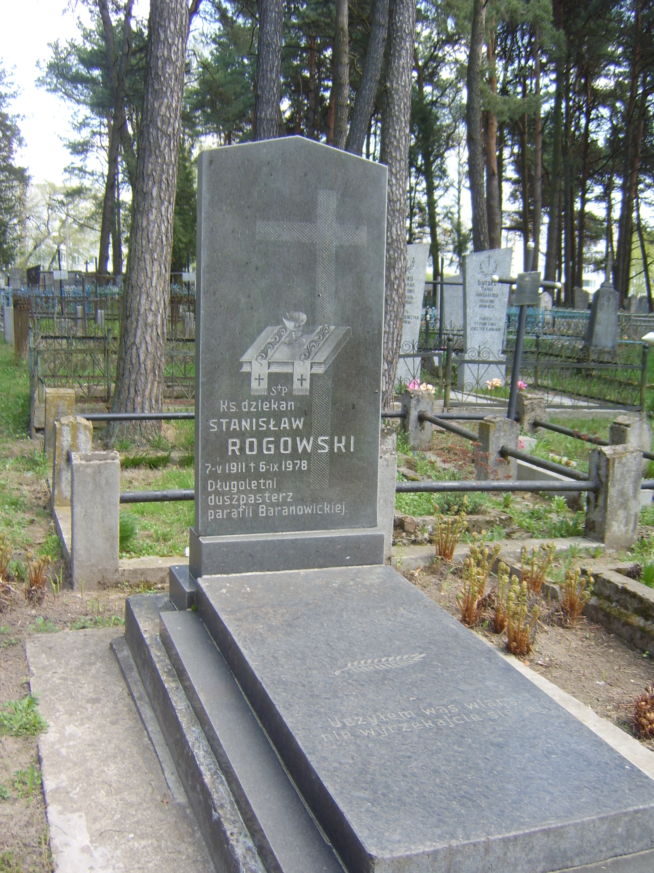 The monument at the grave of the priest Stanislaw Rogowski on the old Catholic cemetery (Baranovichi)